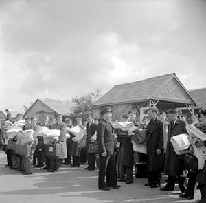 The Petty Officer in charge meets trainee Belgian sailors as they arrive at HMS ROYAL ARTHUR, an Allied training camp in Skegness, Lincolnshire. The men have already been issued with their bedding and stand in rows with blankets piled in their arms and their suitcases beside them. The camp was originally the Butlin's holiday camp.